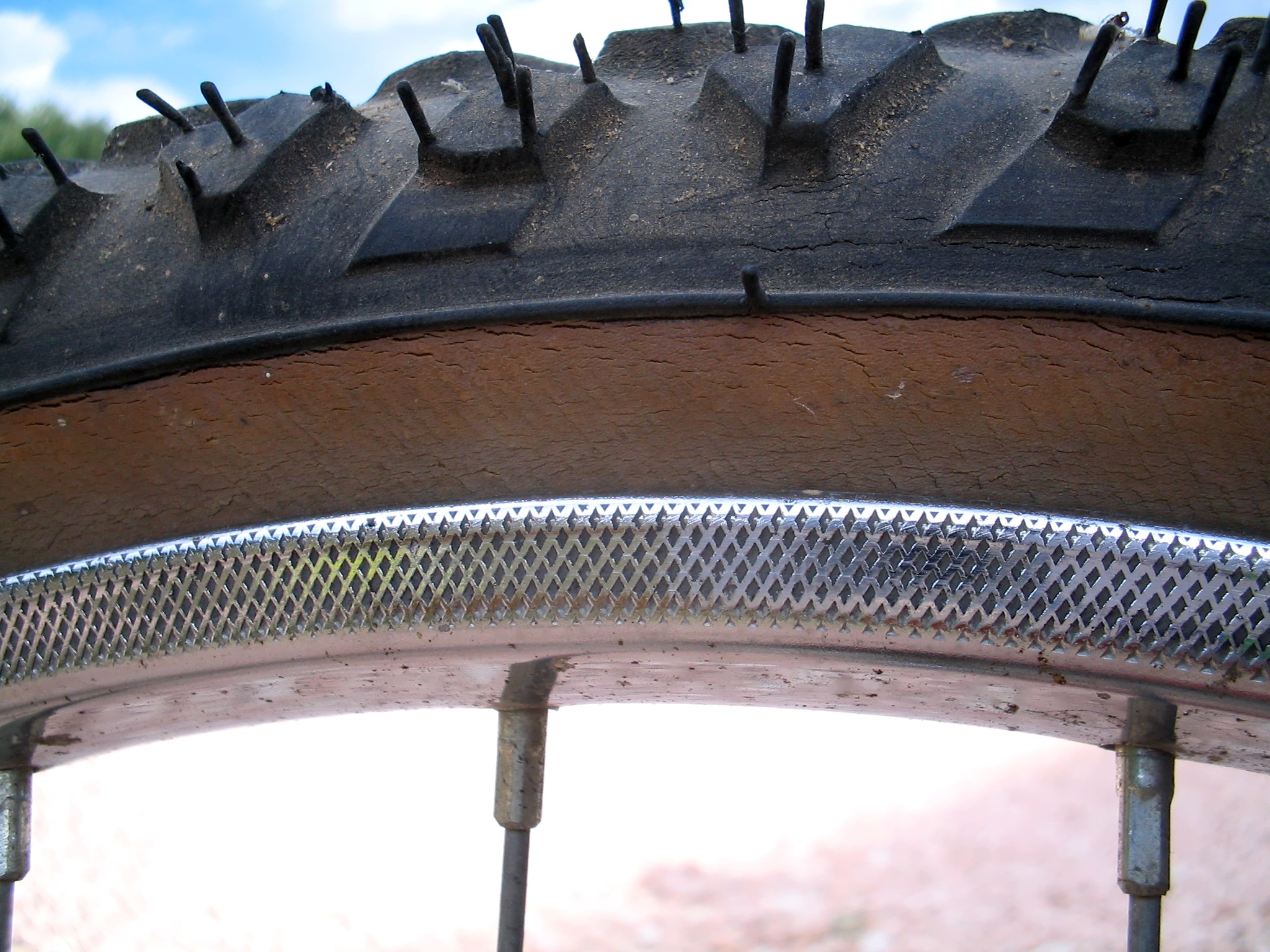 Rim for bicycle braking surfaces with knurled side